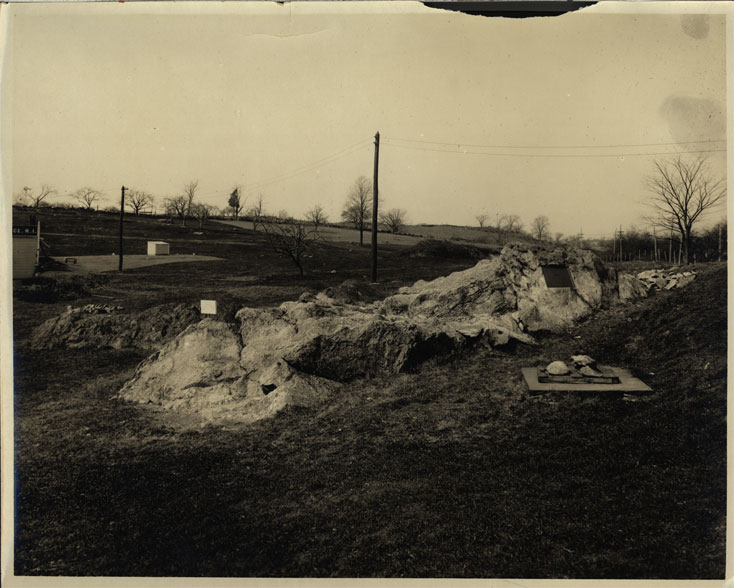 Site of a prehistoric Native American soapstone quarry (Ochee Spring), Johnston, Rhode Island